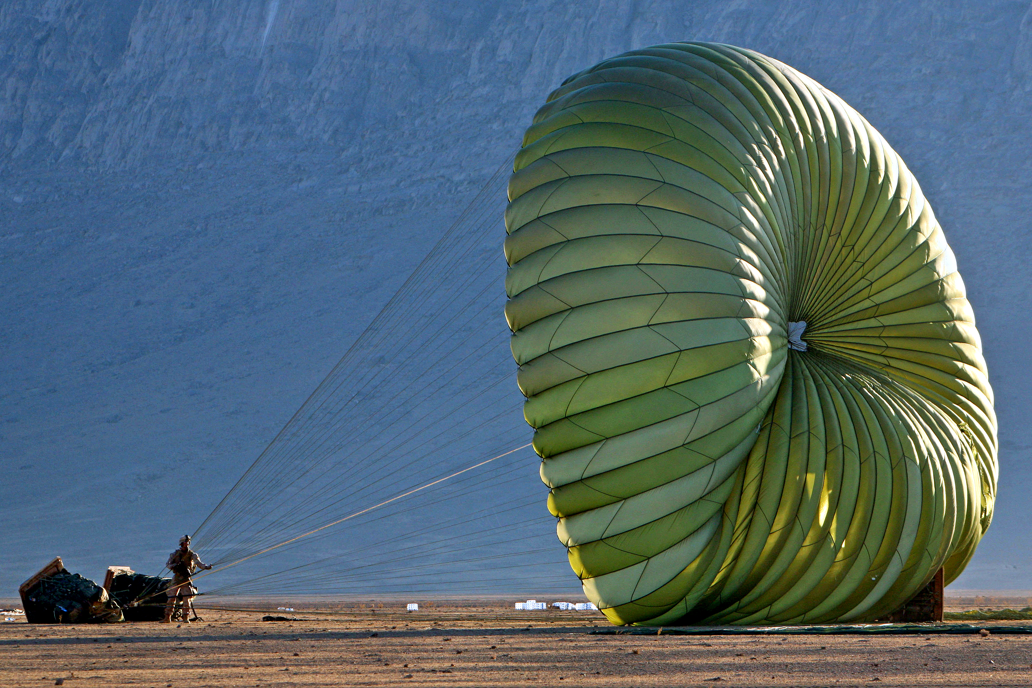 Parachute Supplies: A U.S. Marine holds onto a parachute attached to a supply of water and food dropped by a C-130 cargo transport aircraft during Operation Backstop in Helmand province, Afghanistan, December 11, 2008. The Marines, assigned to Company I, 3rd Battalion, 8th Marine Regiment, are the ground combat element of Special Purpose Marine Air Ground Task Force – Afghanistan. U.S. Marine Corps photo by Lance Corporal Brian D. Jones